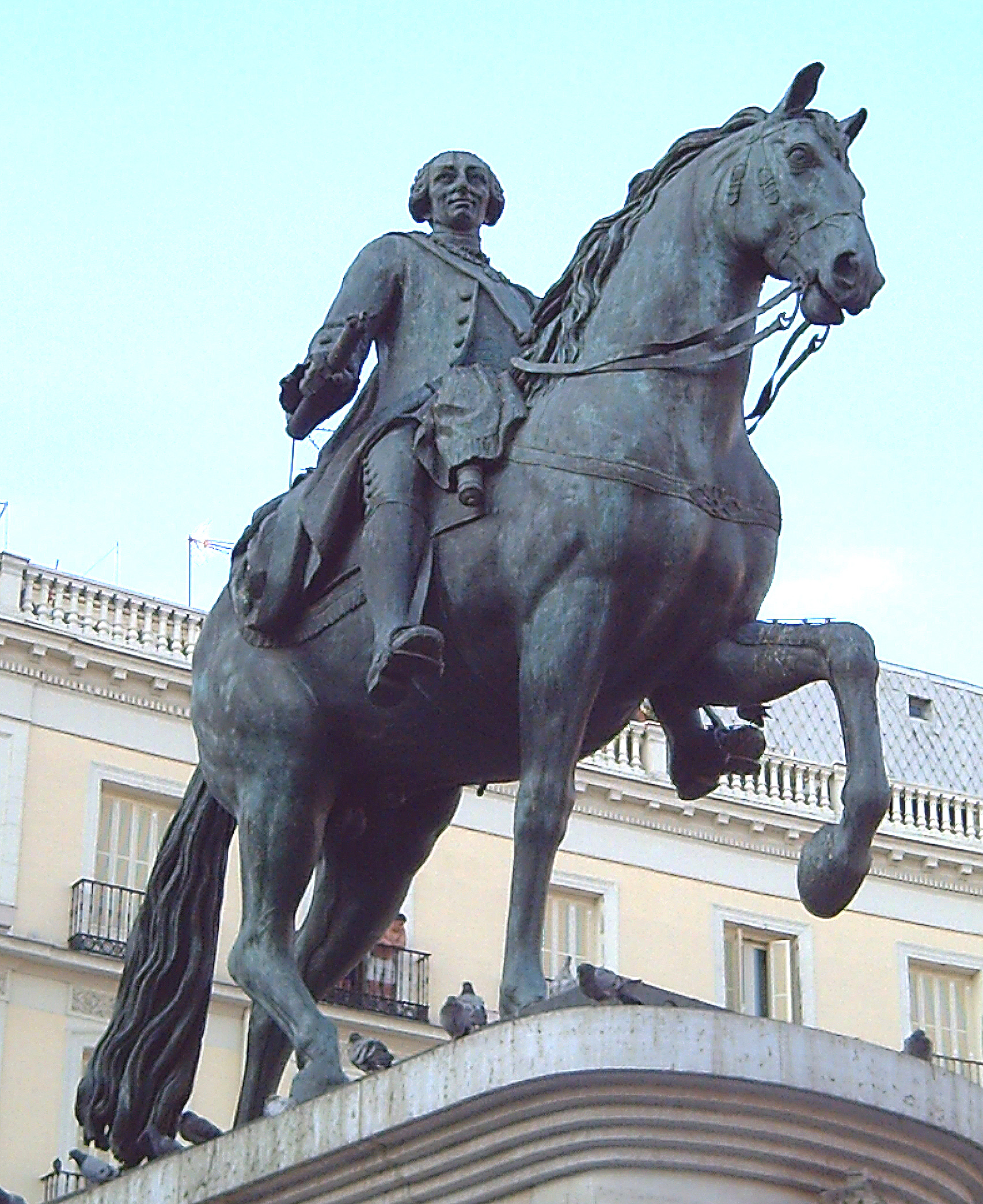 Bronze equestrian statue of Charles III of Spain (1716–1788). Part of the monument at the Puerta del Sol (square) in Madrid (Spain) made by Miguel Ángel Rodríguez and Eduardo Zancada in 1994. The bronze is a replica of a smaller statue sculpted by Juan Pascual de Mena (1707–1784) in the 18th century.